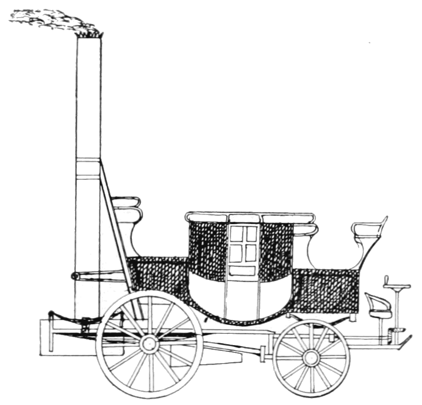 Burstall and Hiel steam carriage made prior to 1825